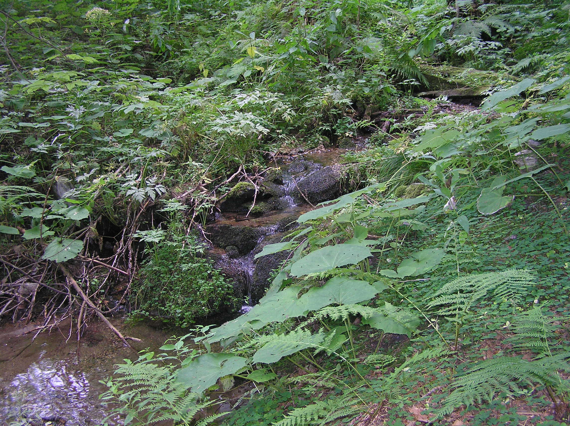 Lipkovský potok is the creek in the Králický Sněžník Mountains, Czech Republic